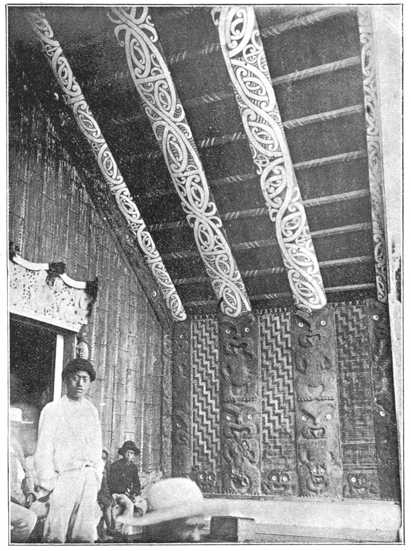 Part of the Verandah, or Porch, of the large House of the Ngati-Porou, at Wai-o-Matatini, East Cape, New Zealand.